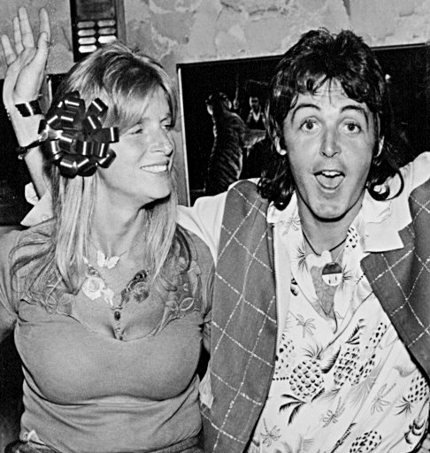 Photo of Paul and Linda McCartney with Bhaskar Menon, president of Capitol Records. The photo was taken at the Los Angeles Forum Club during the 1976 Wings Over America tour.